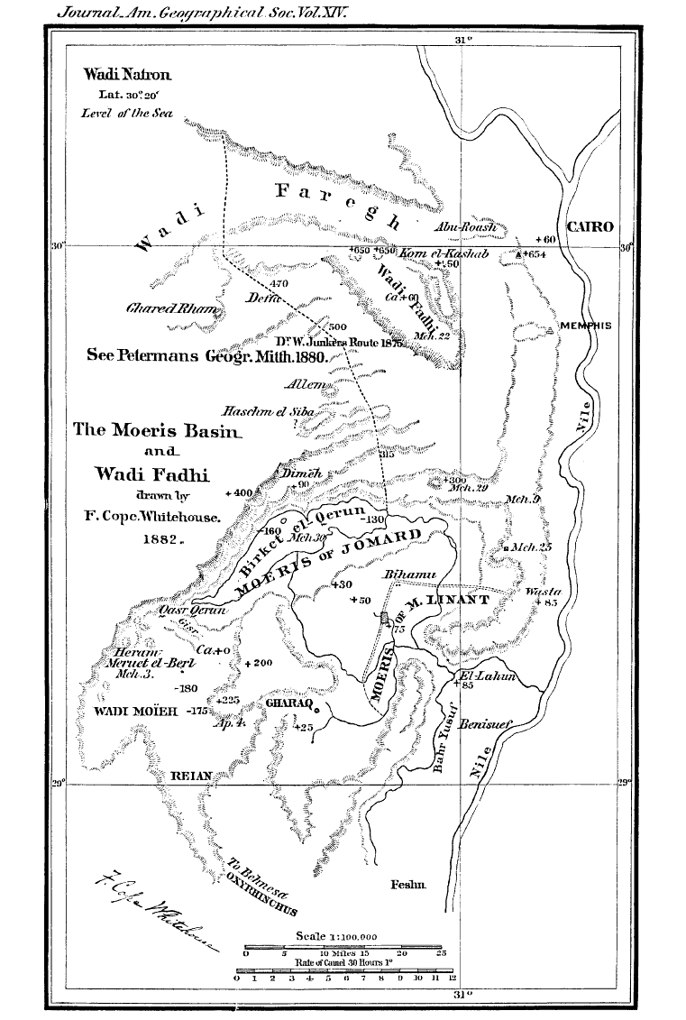 Whitehouse, F. Cope (1882). Lake Moeris: From Recent Explorations in the Moeris Basin and the Wadi Fadhi. Journal of the American Geographical Society of New York.